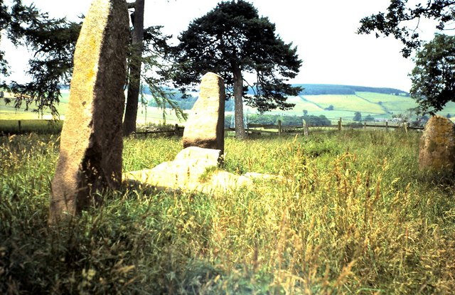 Sunhoney,Recumbent Stone Circle Dating from 3rd/2nd millennium BC this is an early stone circle some 7o feet in diameter now consisting of 11 uprights and a much cup marked 17 foot long recumbent.